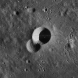 Plato J crater, on the moon.